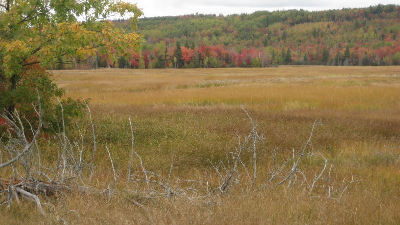 Marshes in Memramcook, New Brunswick.